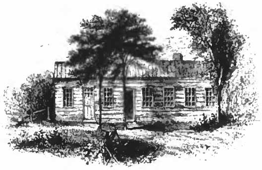 Log cabin in Utica, New York, built by Friedrich Wilhelm von Steuben, inspector general of the colonial army during the North American Revolutionary War.